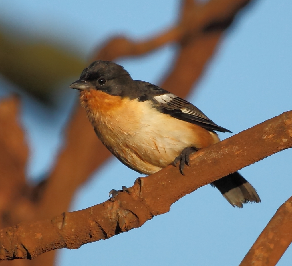 White-rumped Tanager at Chapada dos Guimarães National Park - MT - Brazil